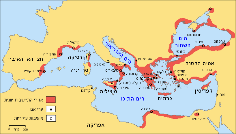 Greek Colonization